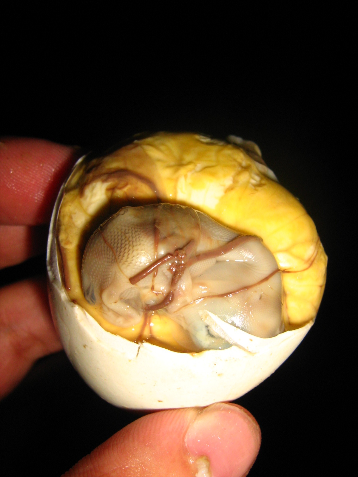 author=Ischaramoochie